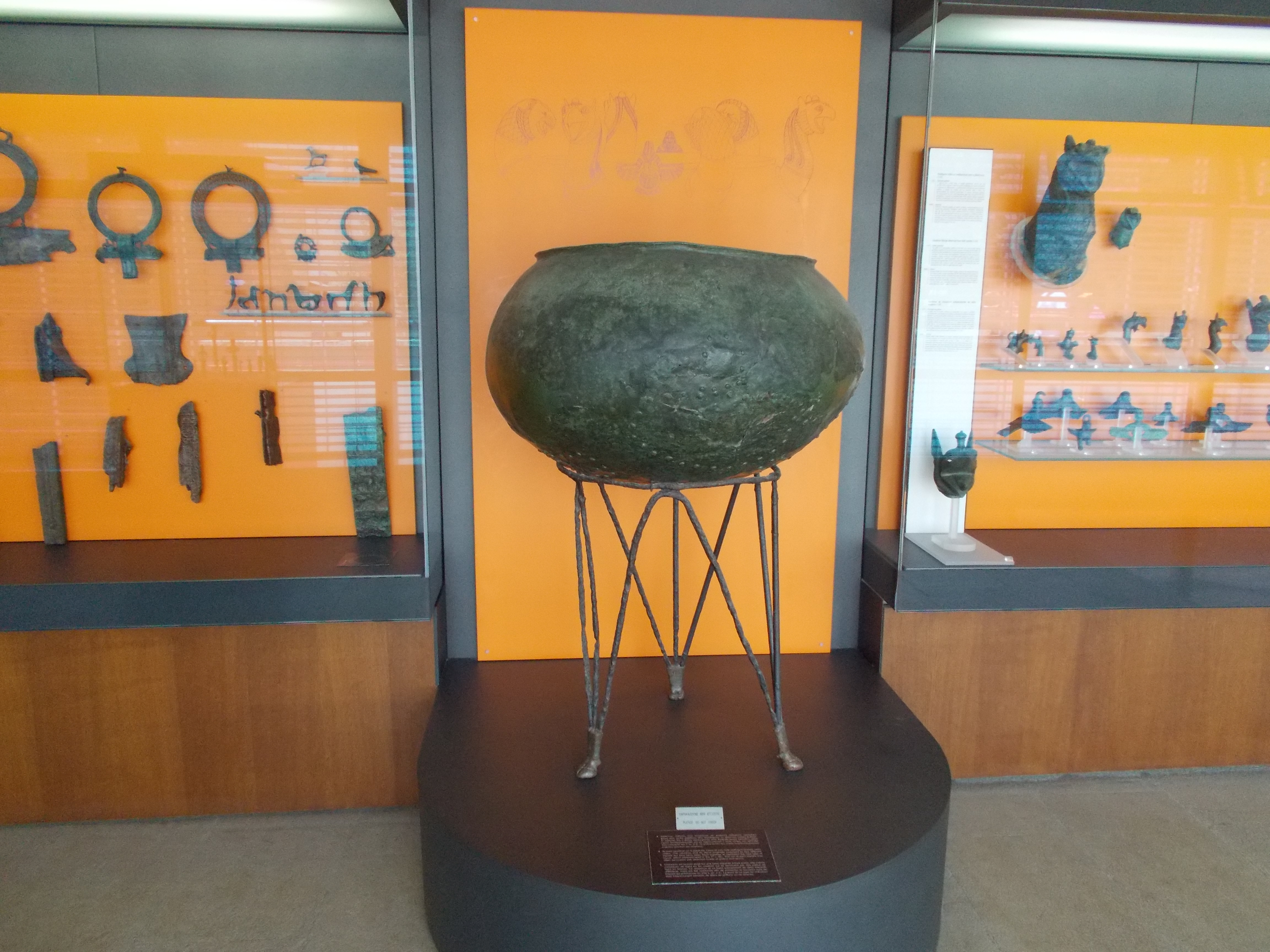 Archaeological Museum of Delphi, artefacts